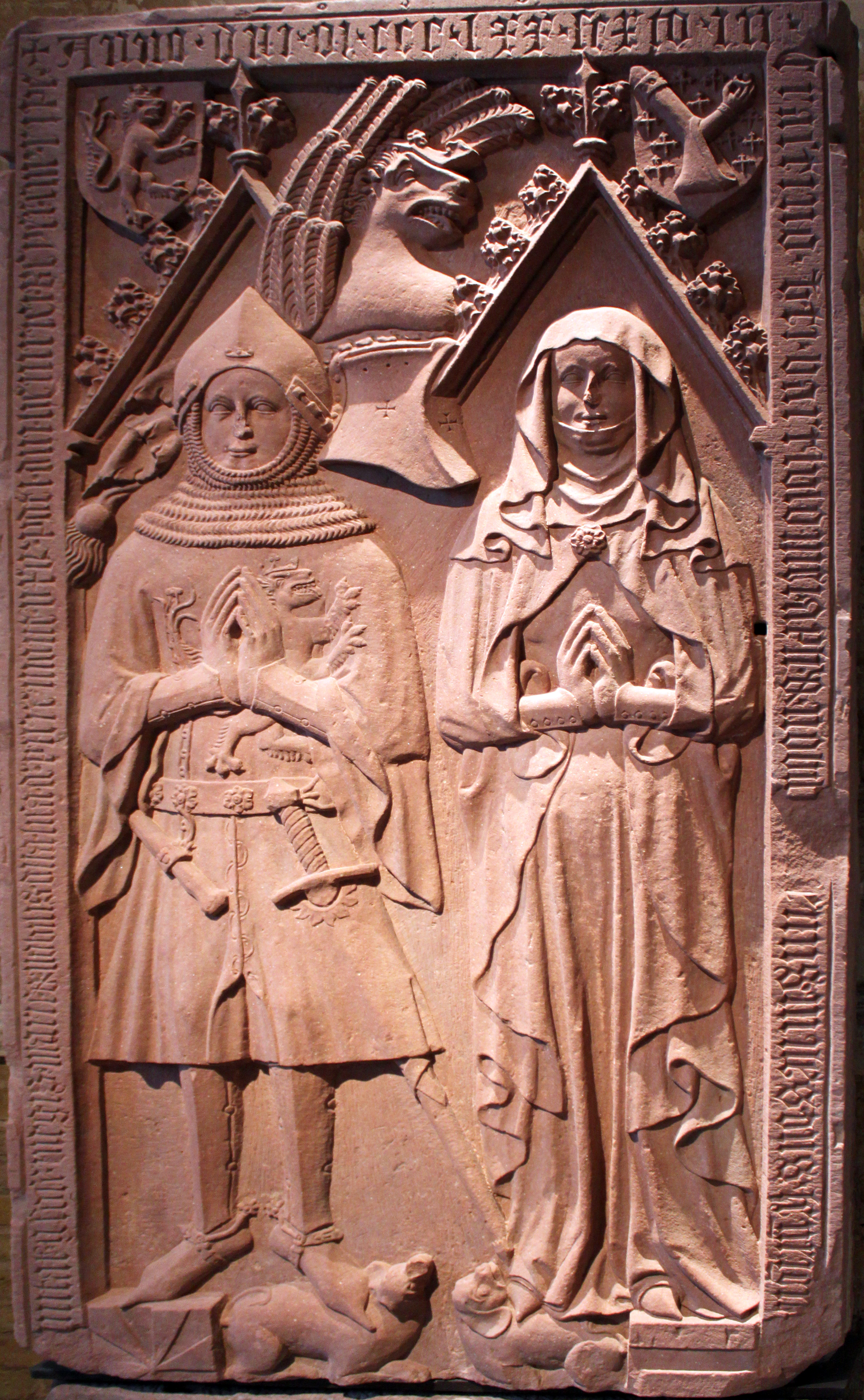 Tombstone of Heinrich Beyer of Boppard (died 1376) and his wife Lisa of Lösnich (died 1399) from the Benedictine Convent of Marienberg, Boppard. Neues Museum Berlin, Germany. Sculpture Collection Inv AE 364